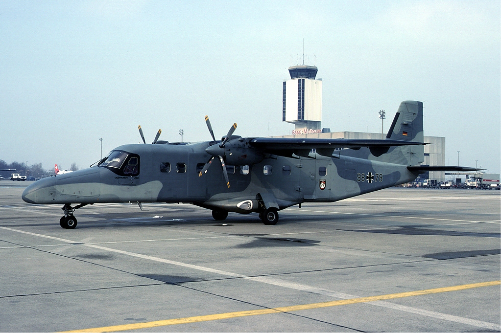 German Navy Dornier 228 at Basle Airport in March 1987